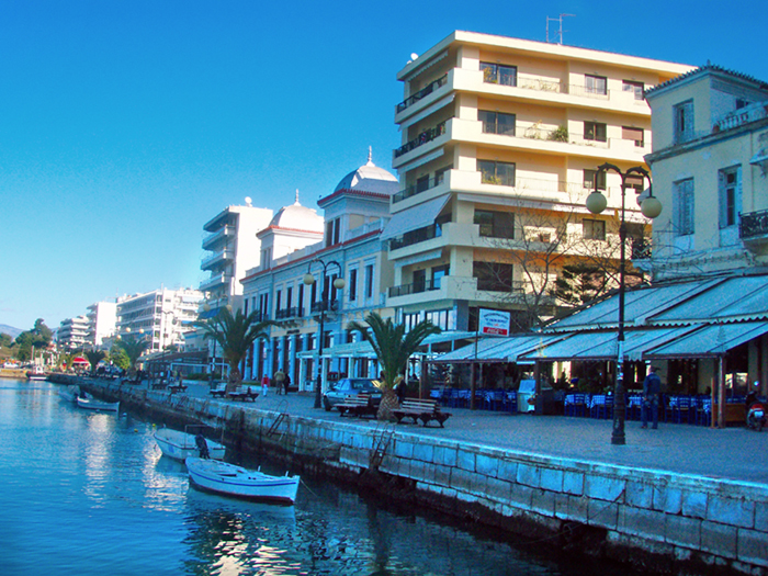 Chalcis,on the island of Evia, Greece